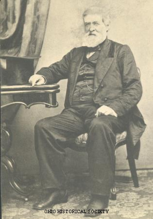 Source: Ohio Historical Society. OhioPix - Samuel Medary Number: SC 342, AL02903 Collection: Portraits of Samuel Medary